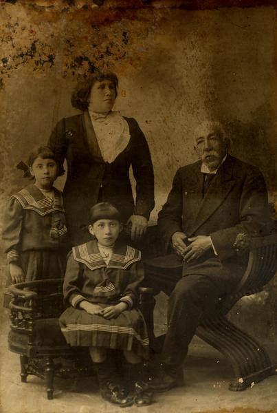 Pascual Ahumada Moreno y familia